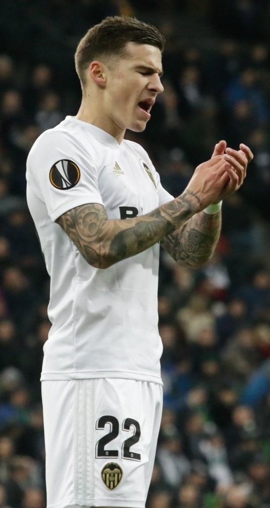 Santi Mina with Valencia CF in an Europa League game against FC Krasnodar.